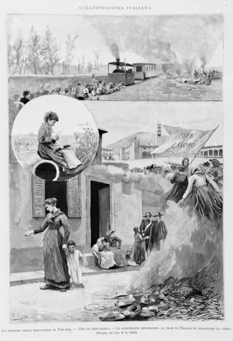 The strike of trecciaole in Tuscany : the strichers prevent the tram of Florence - Fiesole to continue the way. Illustrillustrazione di A. Faldi tratta dalla rivista "L'Illustrazione Italiana" del 7 giugno 1896.